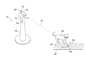 This is Figure 1 in U.S. Pat. No. 6,701,872. It is intended to illustrate a concept explained in Machine-or-transformation test.